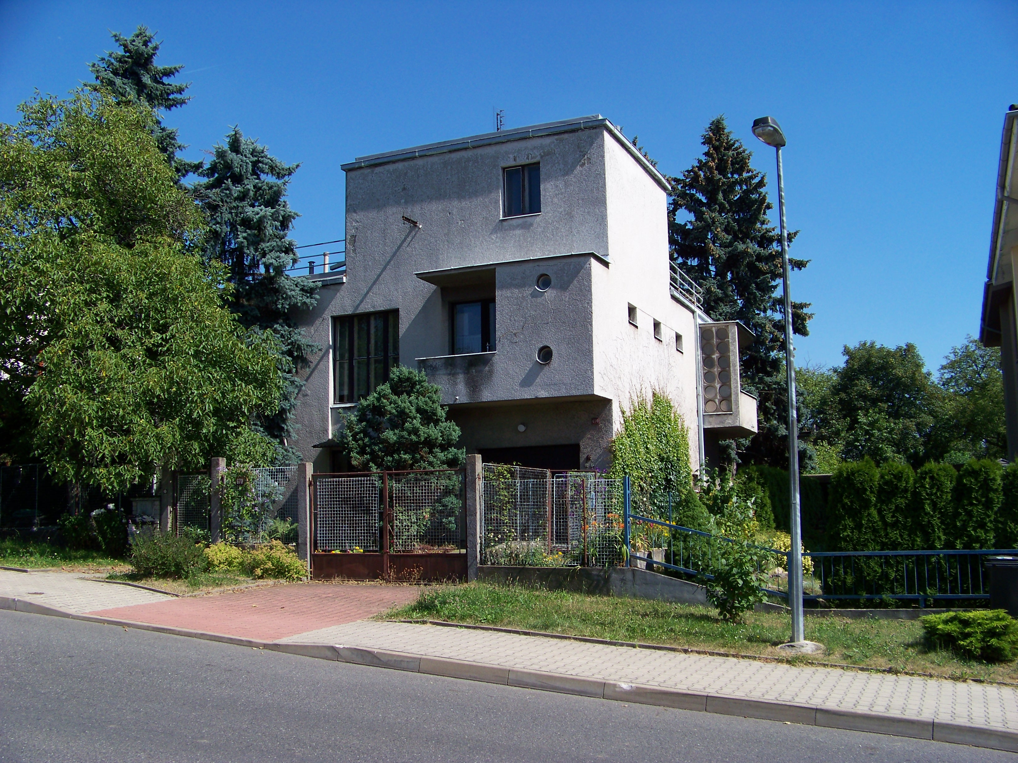 Prague-Kyje. Jordánská 670.